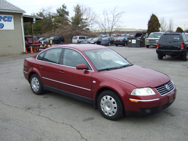 Volkswagen Passat B5 GP